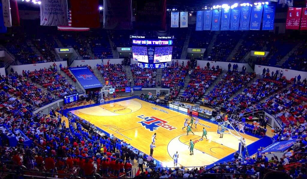 Photo taken at the Thomas Assembly Center